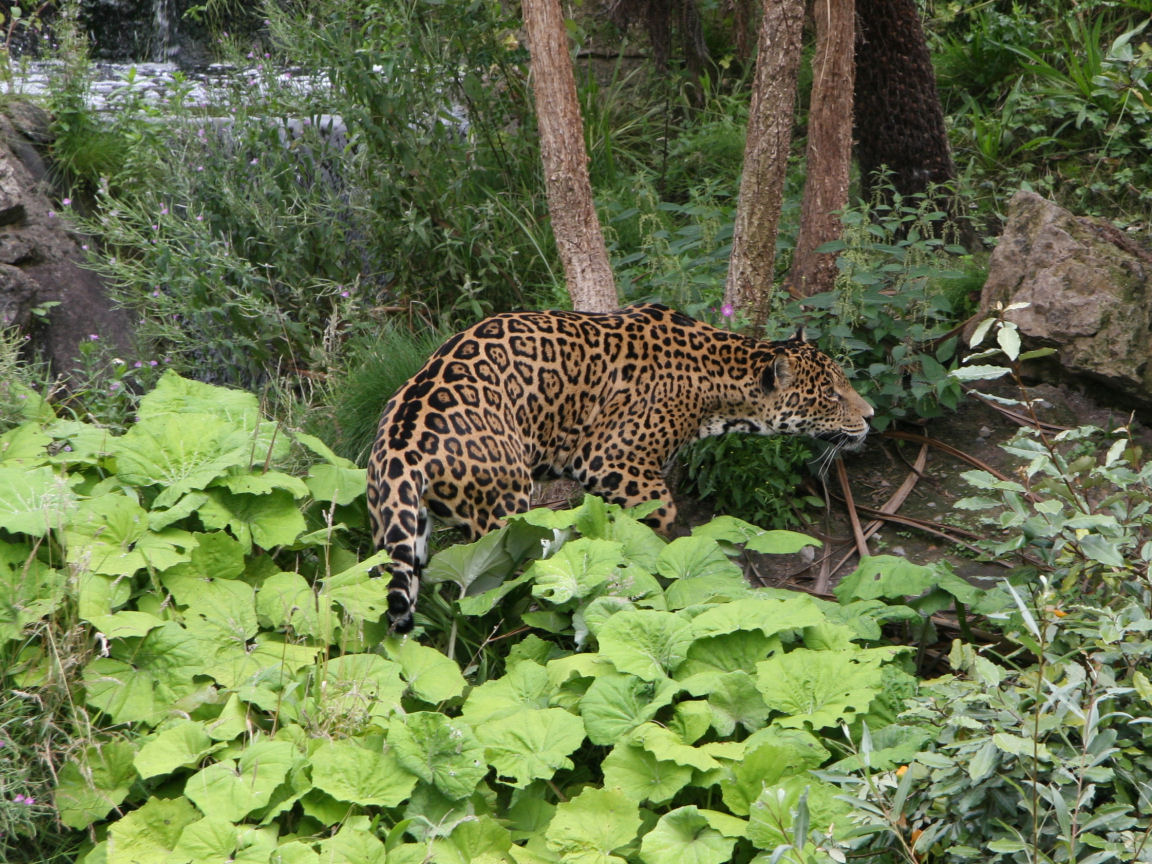 A Jaguar Panthera onca at Chester Zoo, England.